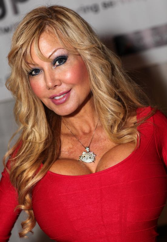 Cindy Pucci at the 2013 AVN Expo & AVN Awards held at the at the Hard Rock Hotel & Casino in Las Vegas. Please provide photographer credit when using, tweeting, etc... Photo by Michael Dorausch This photo is licensed under a Creative Commons license. If you use this photo within the terms of the license or make special arrangements to use the photo, please list the photo credit as "Michael Dorausch" and link the credit to .